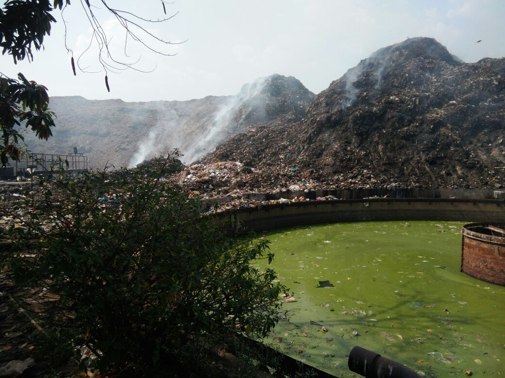 solid waste